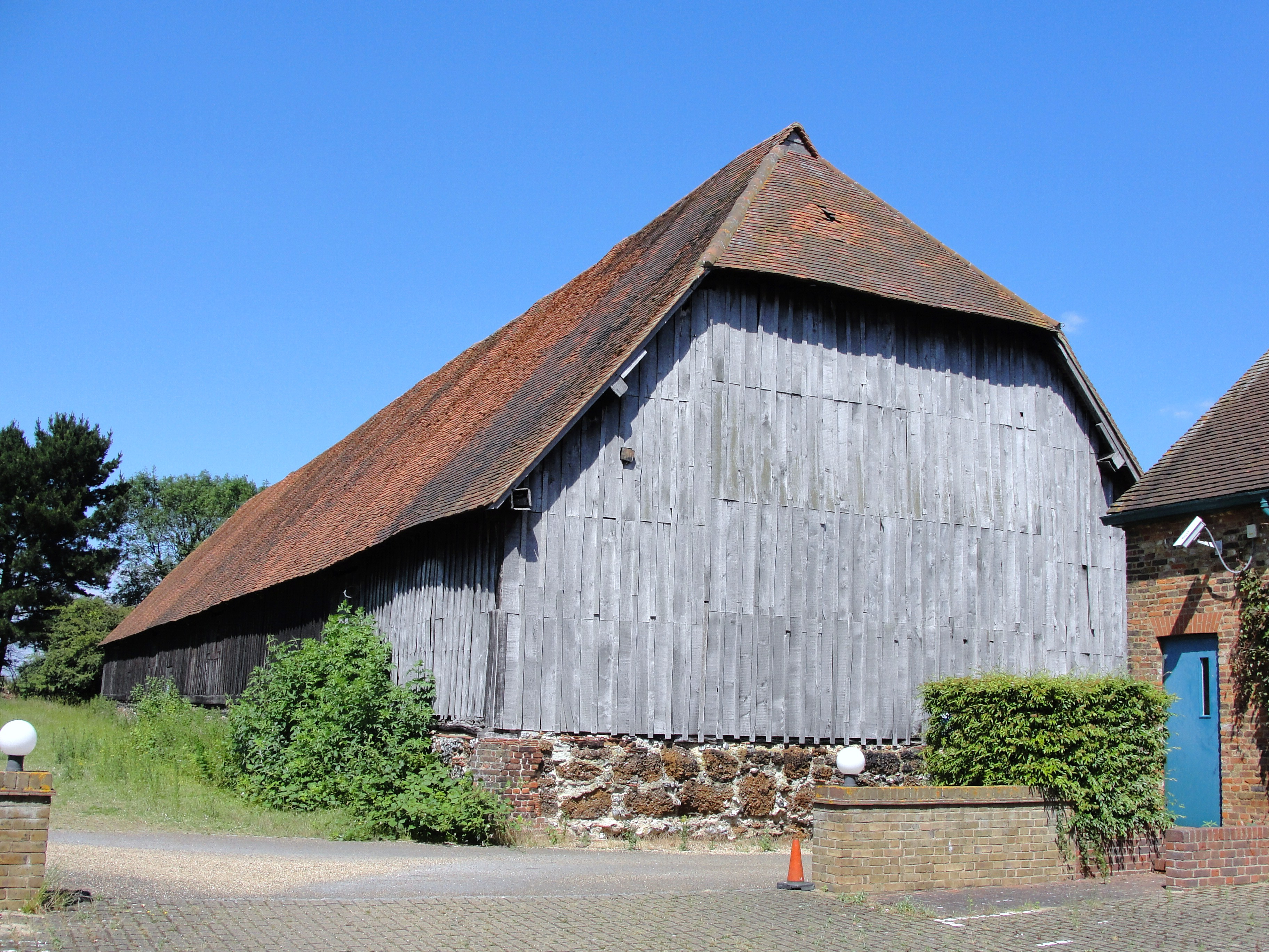 Harmondsworth Great Barn